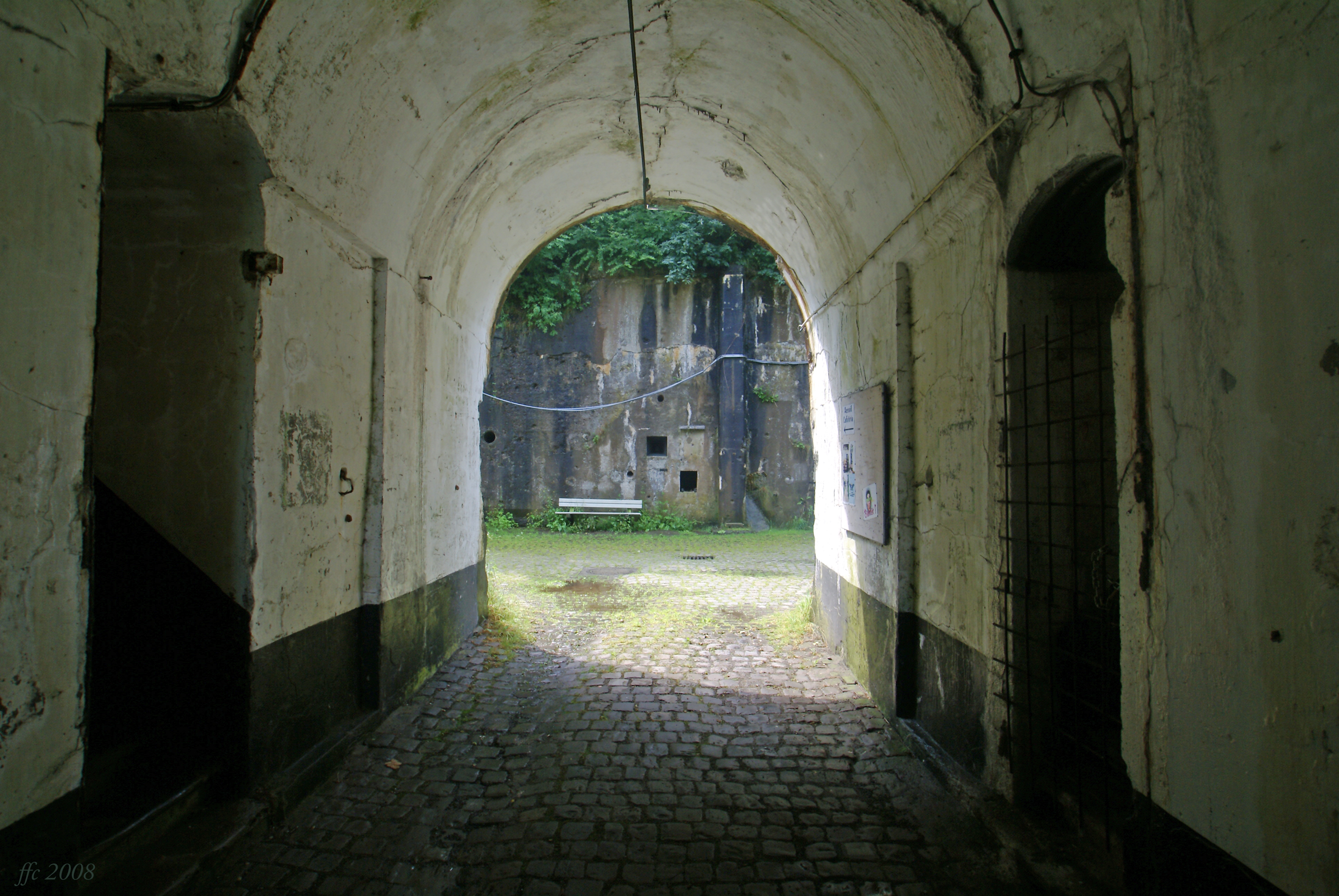 Embourg (Belgium): The fort – corridor and inner court yard